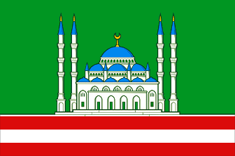 Flag of Grozny, Chechnya, Russia